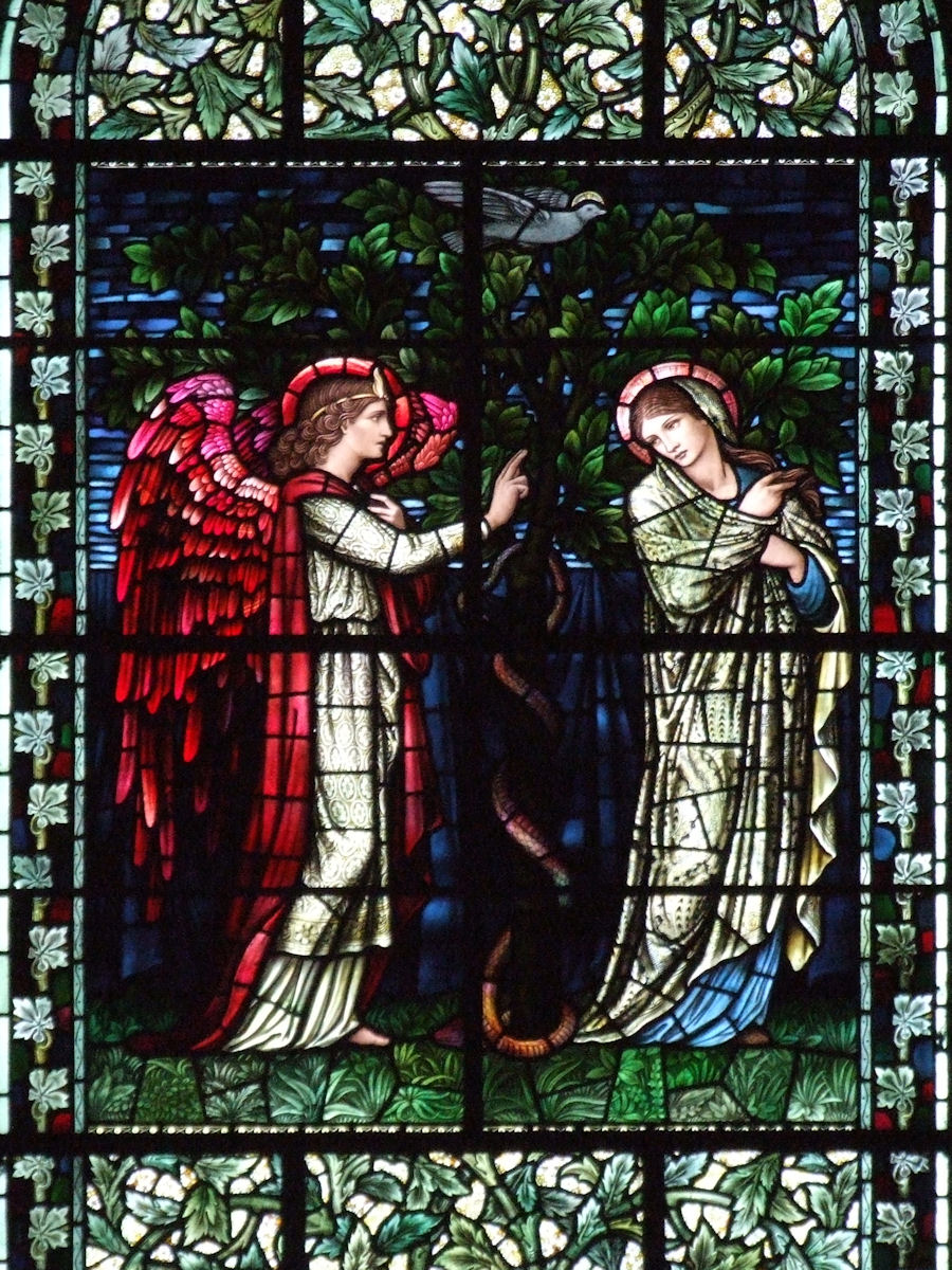 Winchester Cathedral, Winchester, England